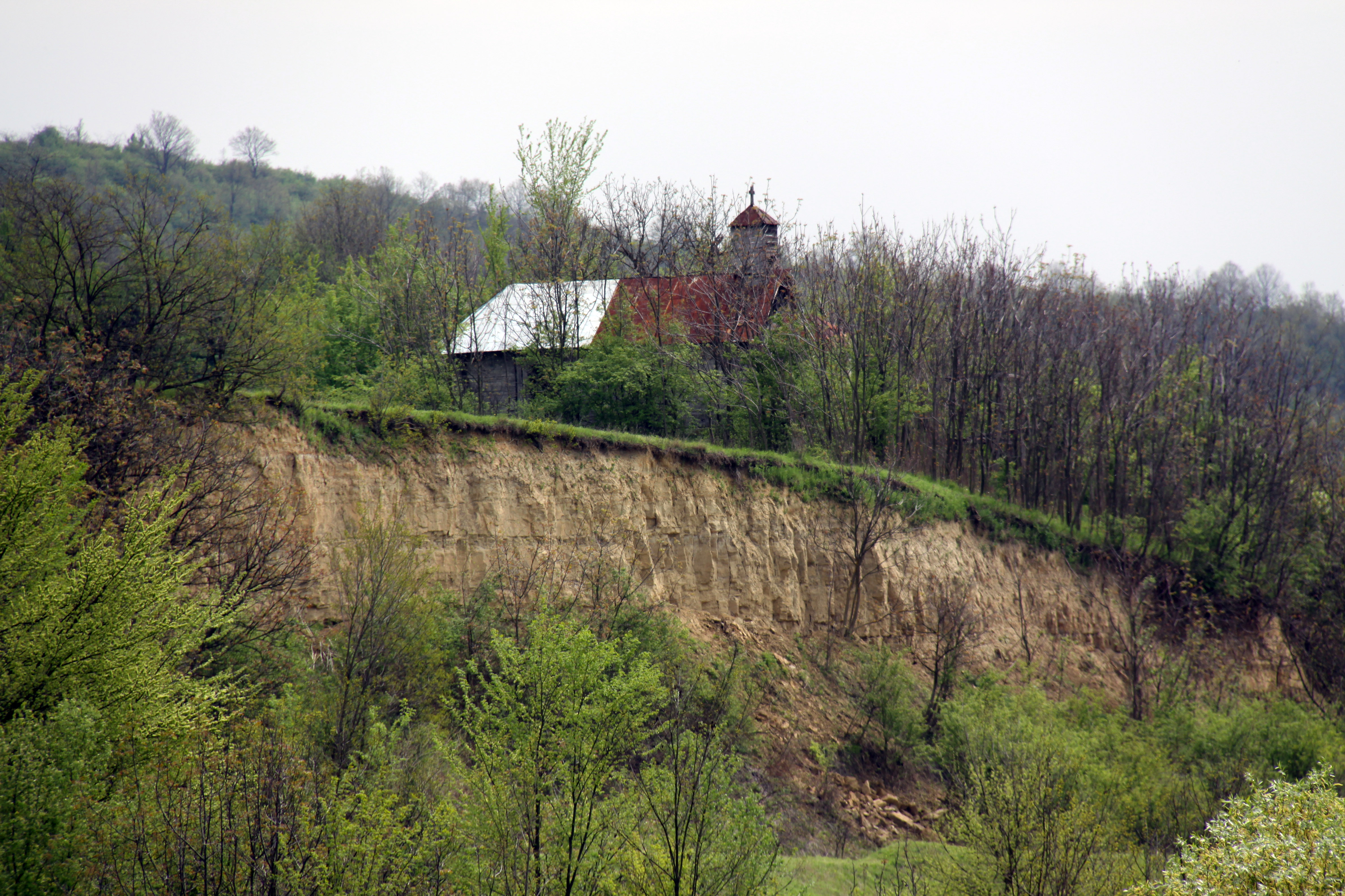 Slămneşti, Gorj county, Romania: the wooden church.